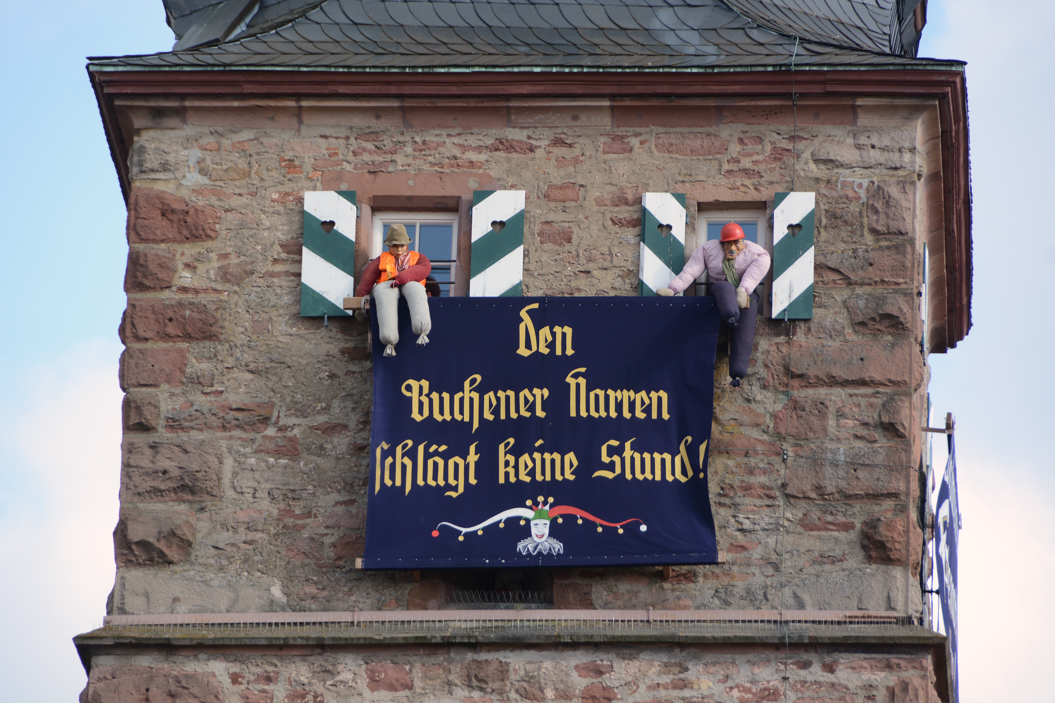 City tower of Buchen (Odenwald), Germany, clock hidden because of carnival